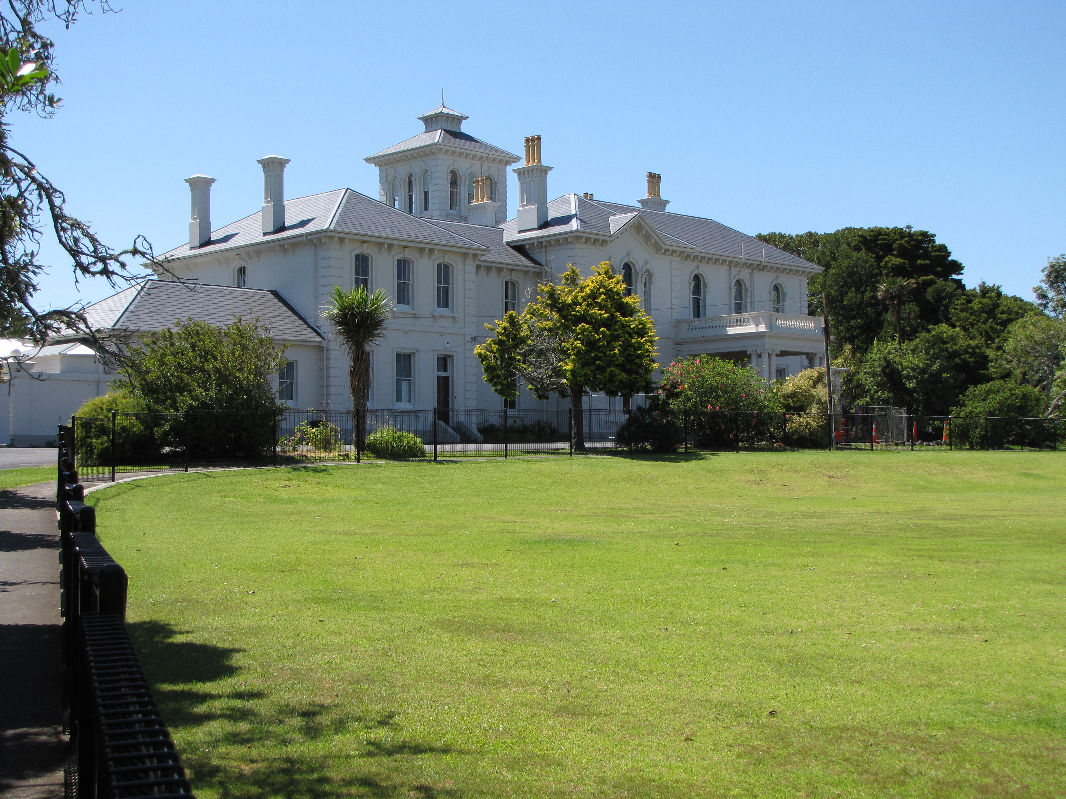 Pah Homestead in Monte Cecilia Park, Hillsborough, Auckland, New Zealand. New Zealand Historic Places Trust Register number: 89.